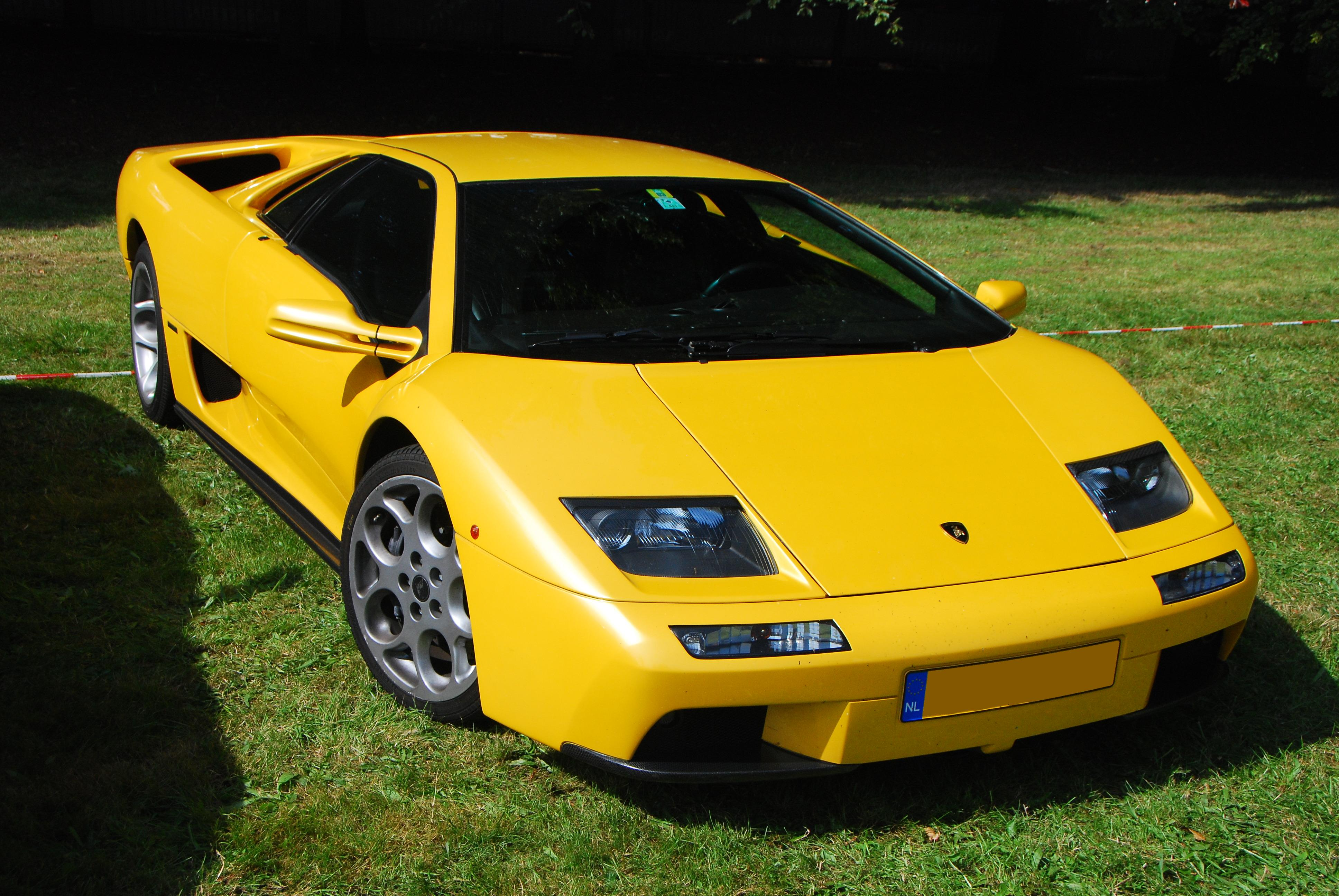 Lamborghini Diablo seen during Concours d'Elegance 2008, Apeldoorn (NL)